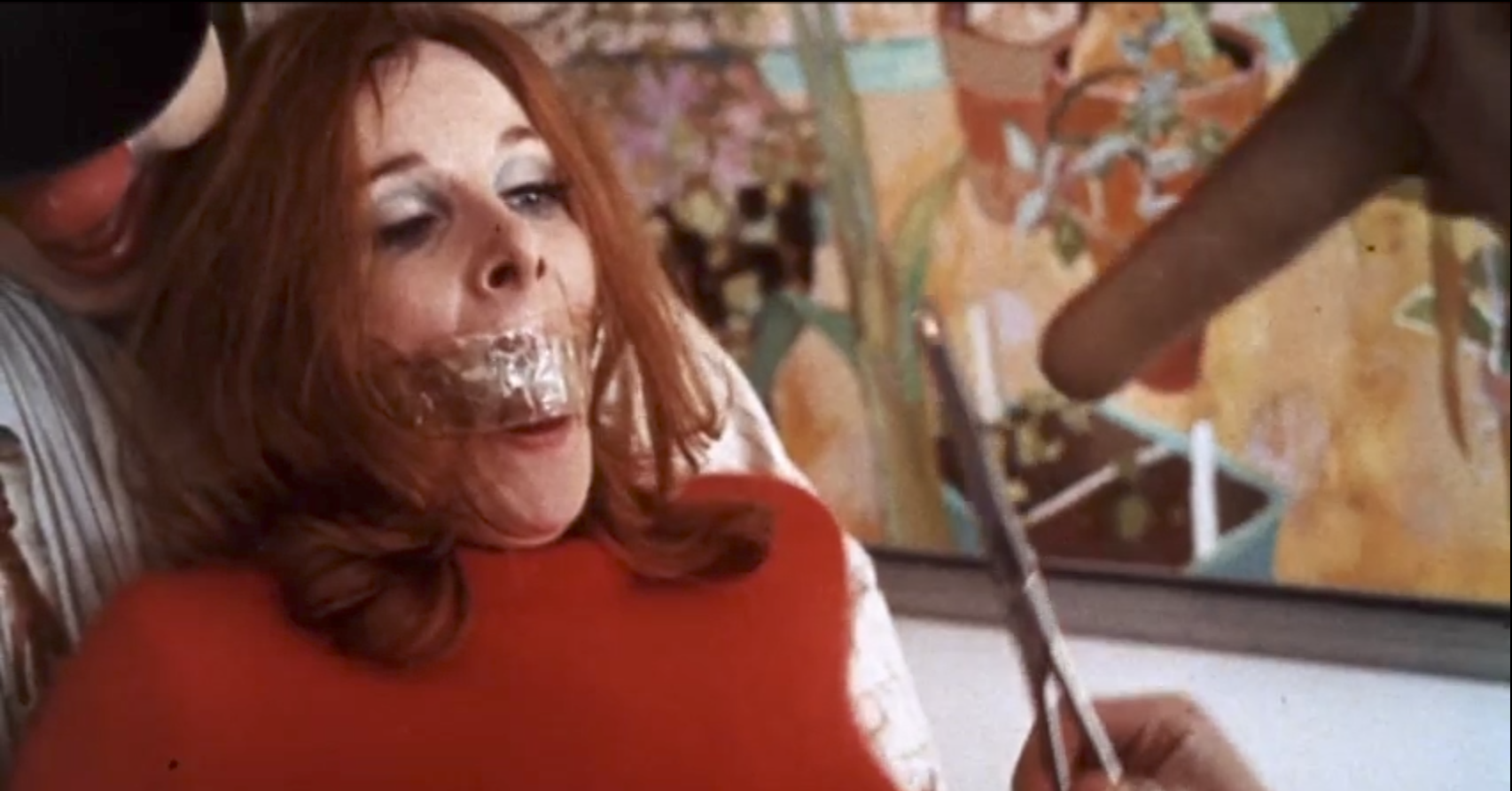 Adrienne Corri getting "ready for love" in A Clockwork Orange